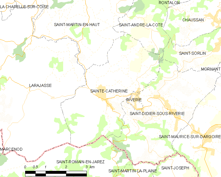 Map of French municipality